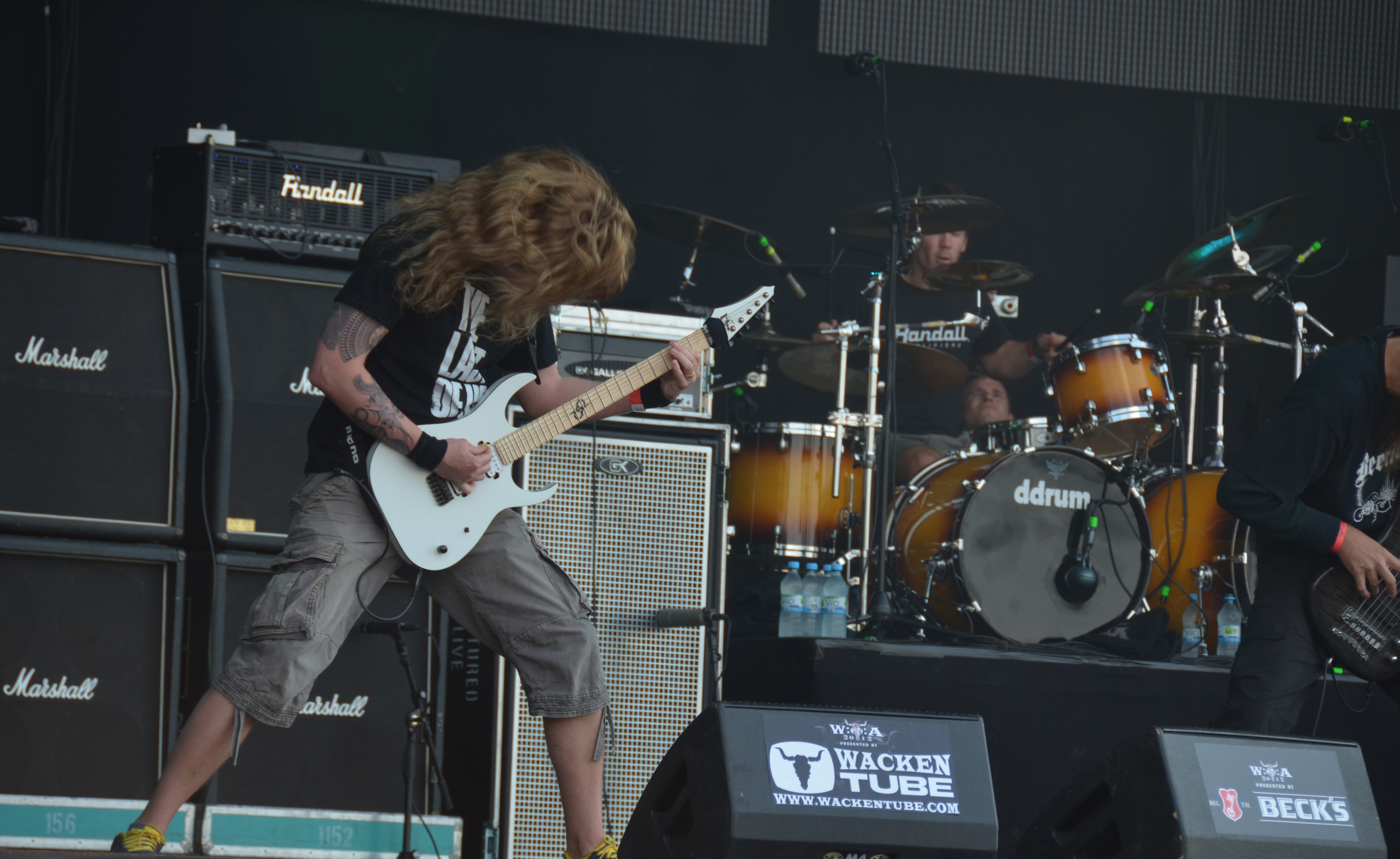 Six Feet Under at Wacken Open Air 2012; Ola Englund (guitar) and Kevin Talley (Drums)